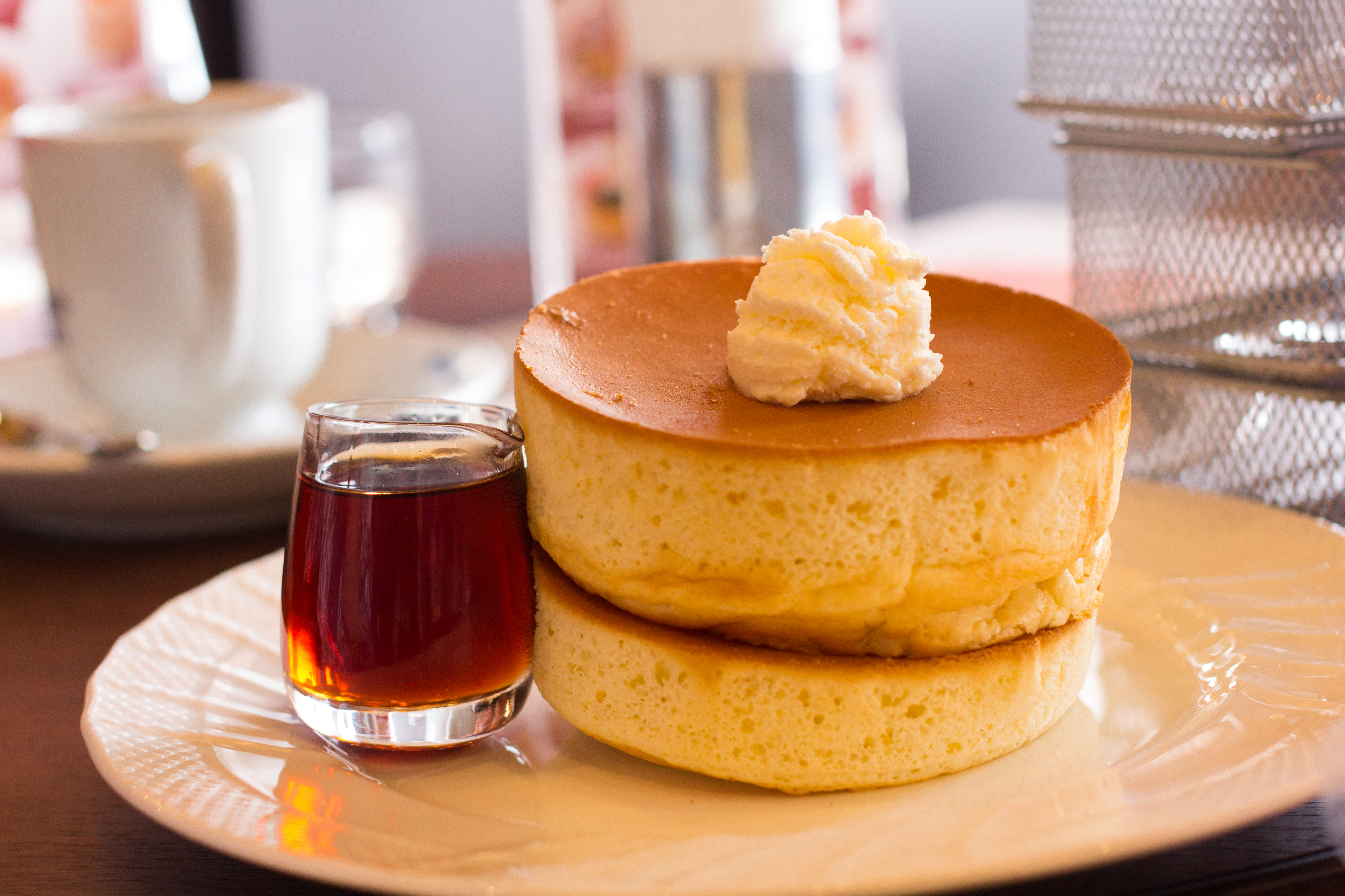 EOS 60D+Sigma 50mm F1.4 EX DG HSM If you have requests or comments, please describe these in photo comment space. 窯焼きスフレパンケーキ